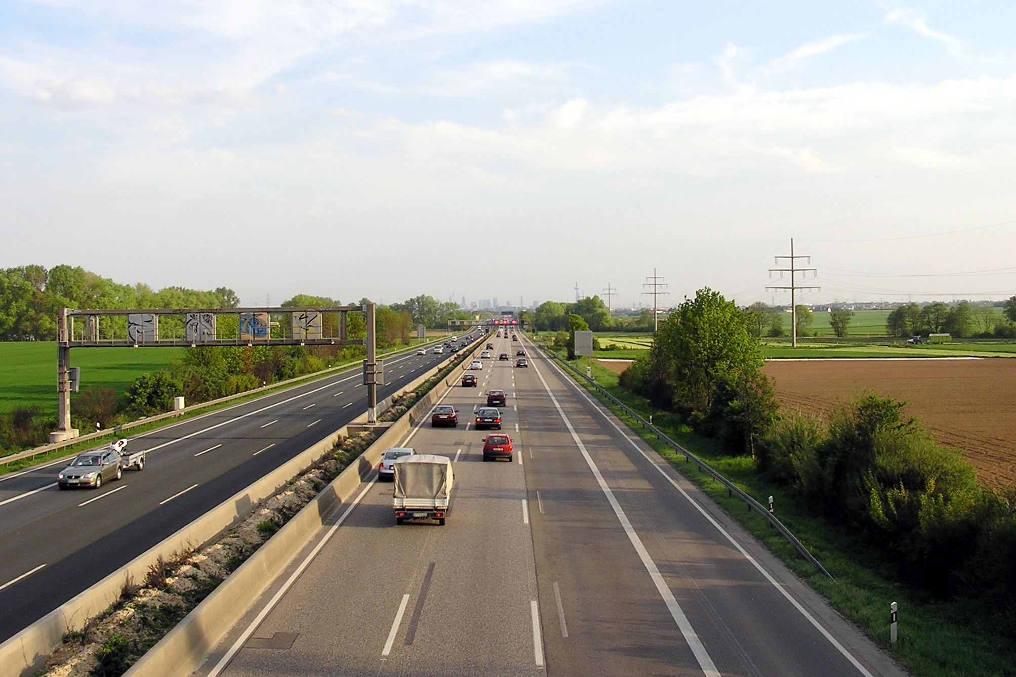 A5, near the Homburger Kreuz, Frankfurt in the background. The autobahn runs here exactly from north to south. At rush hour the emergency lane can be used for driving.